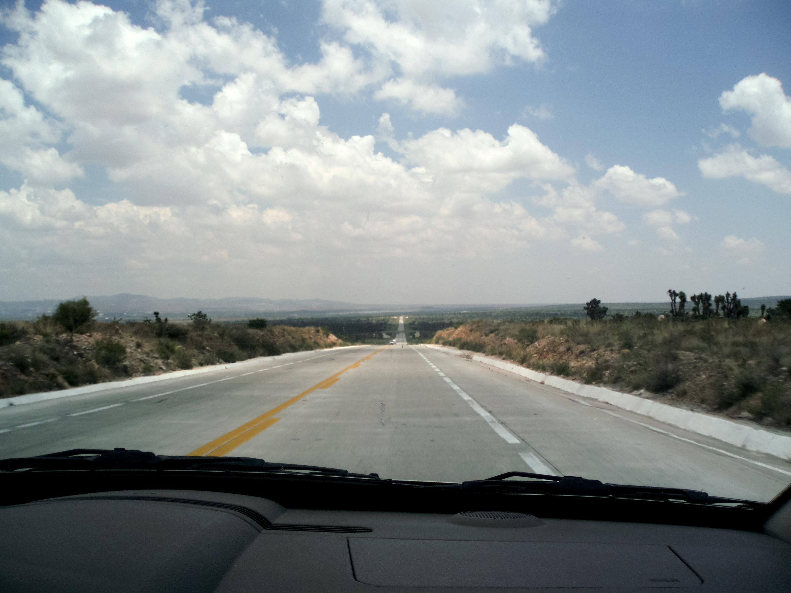 Mexican Highway MEX-45 between Aguascalientes and Zacatecas.